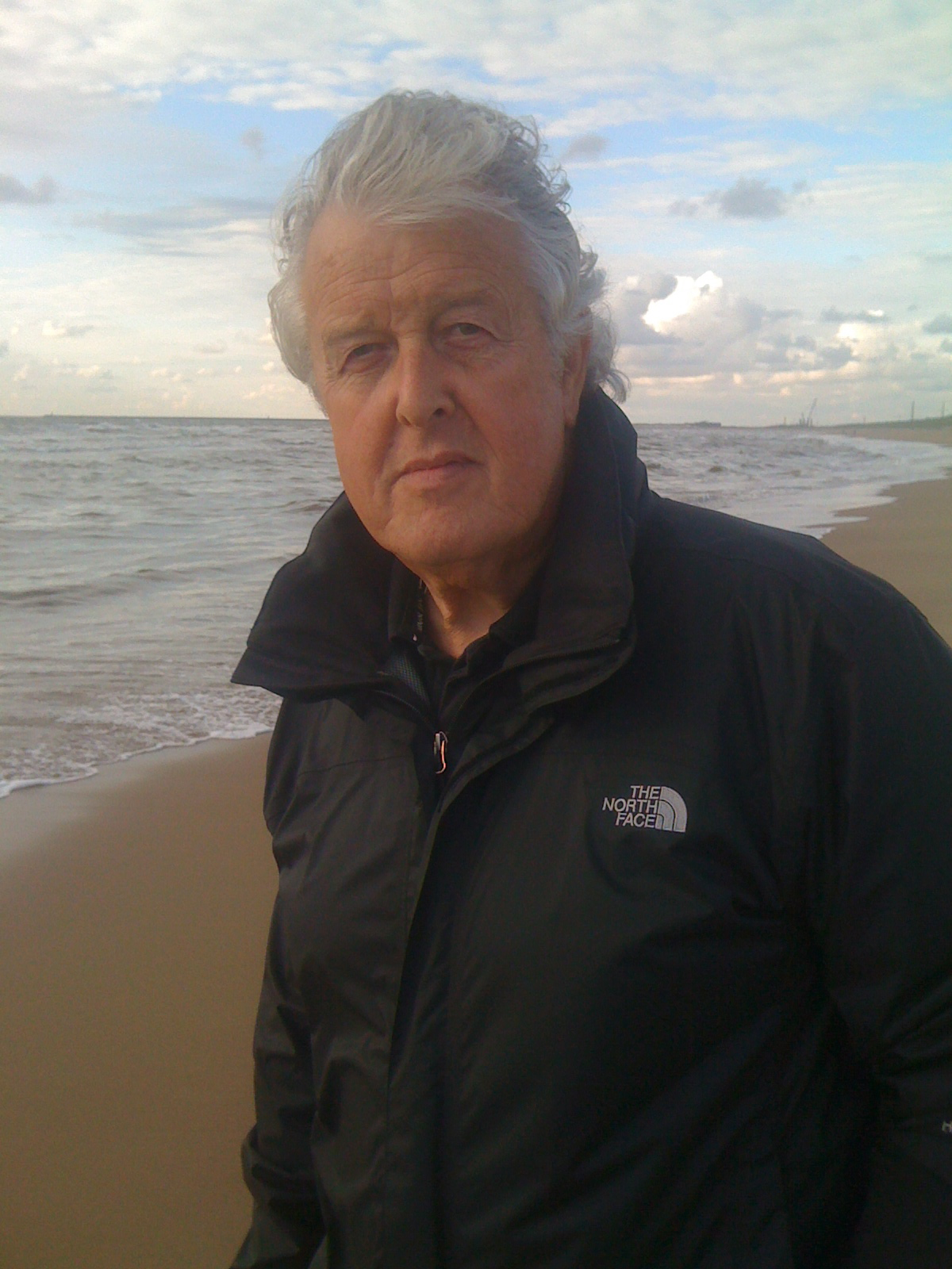 Cherry Duyns, Film director